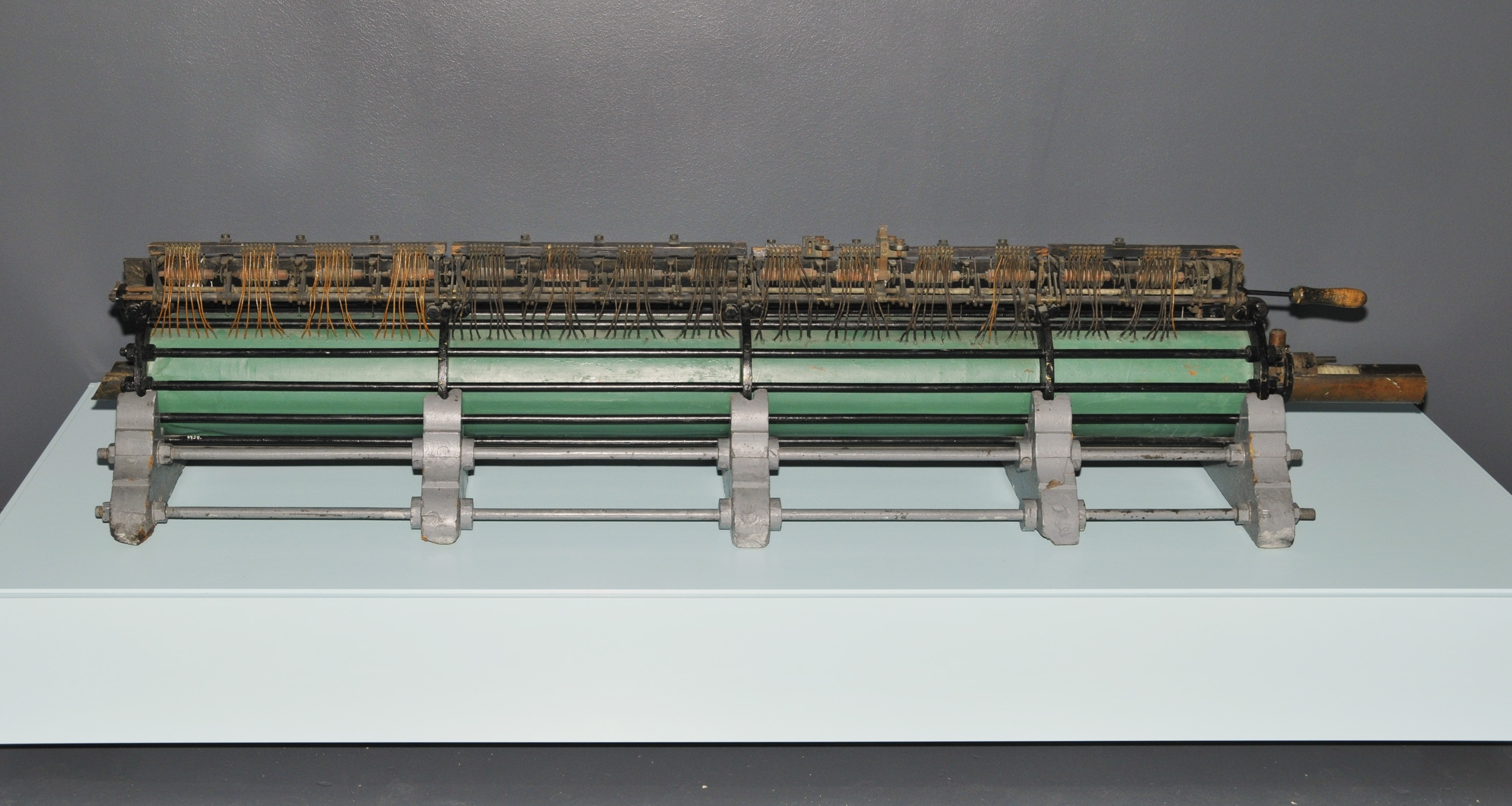 Prototype of Prof Kristian Birkelands electric cannon, or railgun, produced by N. Jacobsen Electric Workshop A / S at 1902, Kristiania, Norway. Length 38 cm, width 60 cm and height 50 cm. The first patent was awarded to Birkland of the University of Oslo. It accelerated a 500 g projectile to 50 m/s.